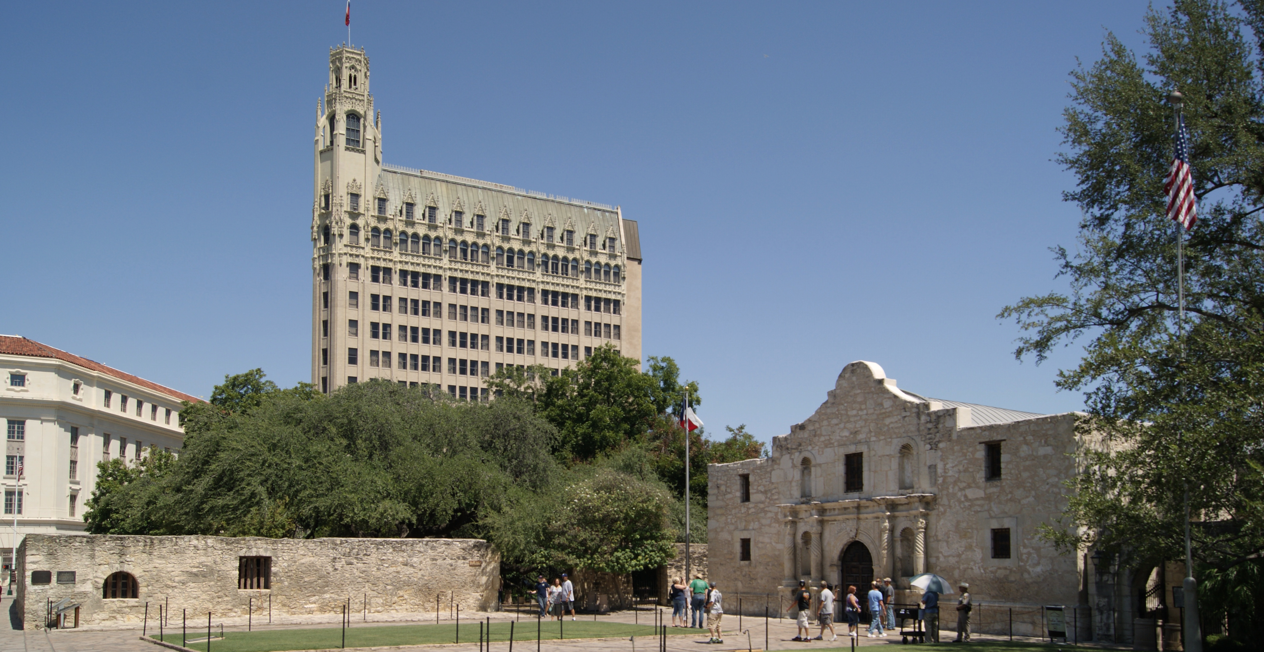 Alamo Mission, San Antonio, Texas, USA